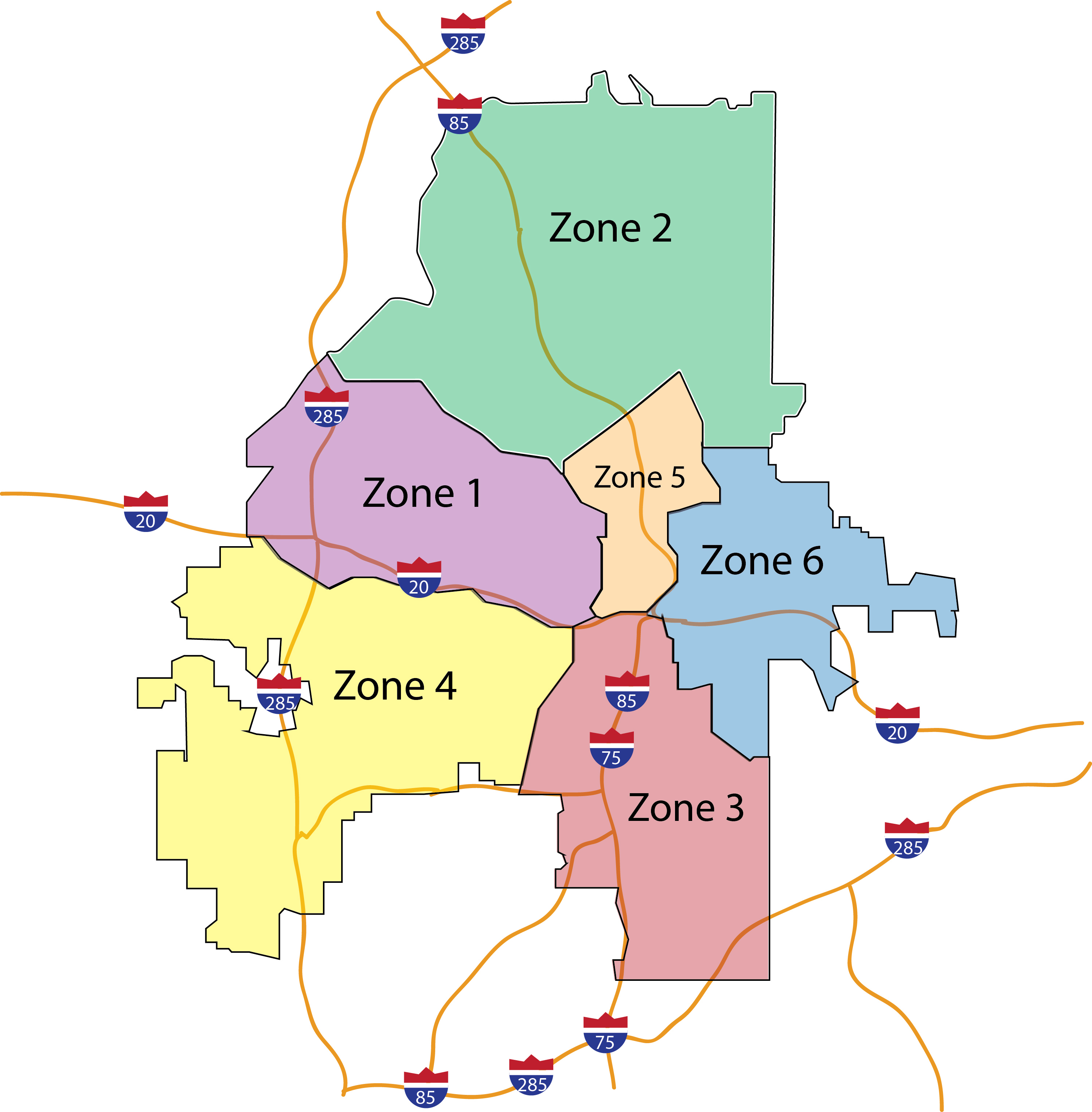 Map of police zones in Atlanta, Georgia Created based on information from the Atlanta Police Department (